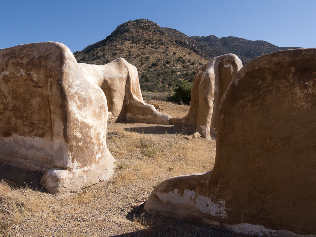 Fort Bowie National Historic Site in Apache Pass, Arizona.